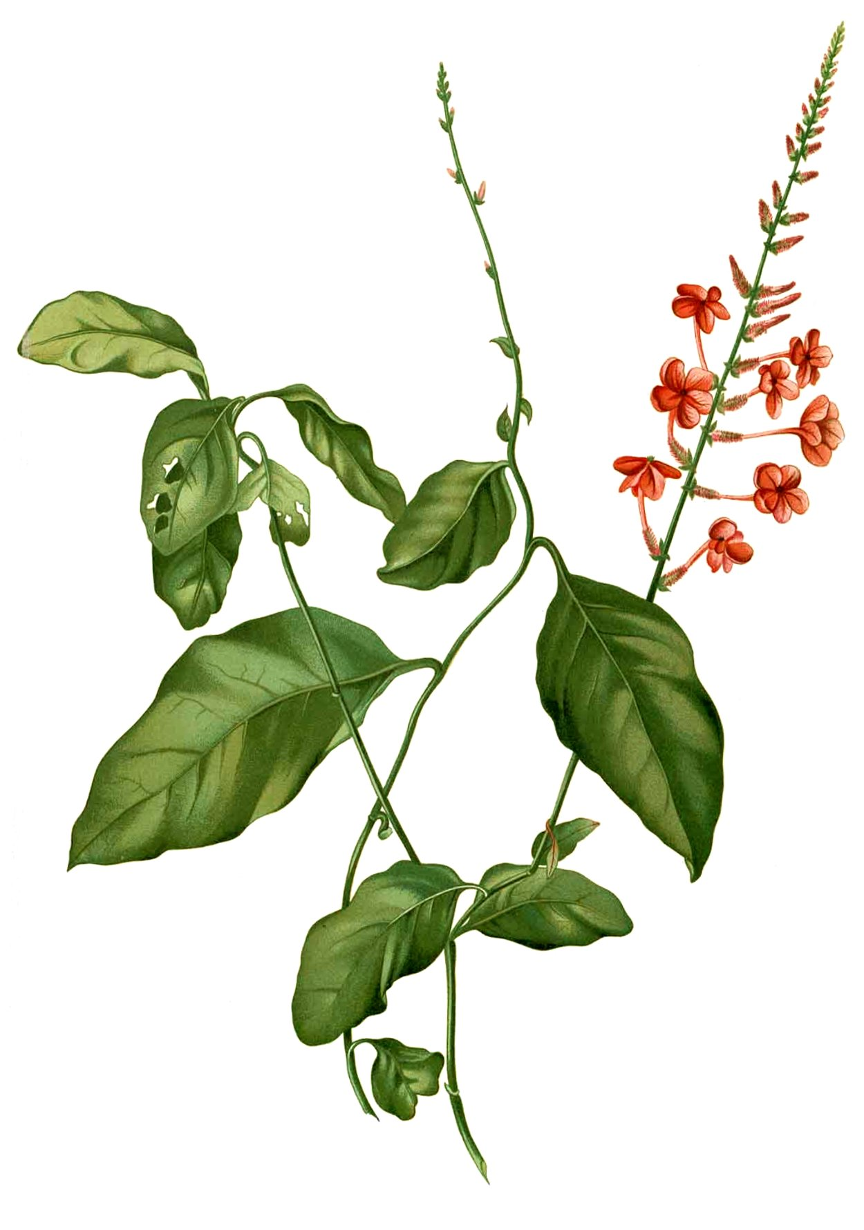 Plate from book Plumbago coccinea